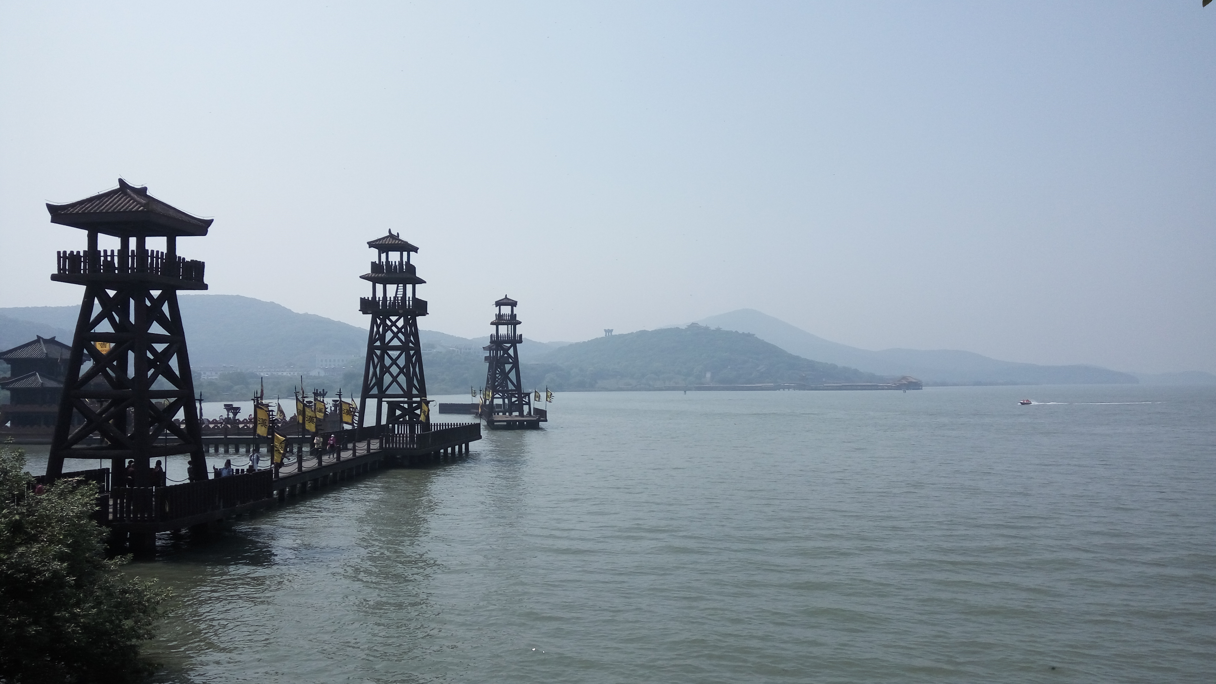 The shore of Lake Tai in Jiangsu Province, China, in Wuxi's Three Kingdoms Park.